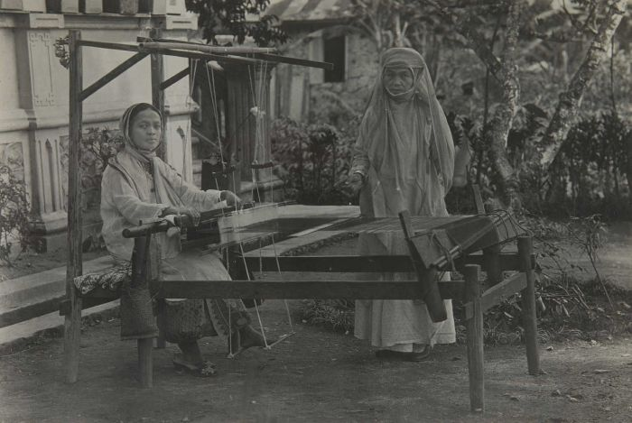 A weaver with her weaving loom and a woman who made the pilgrimage to Mecca